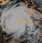 Hurricane Allen at peak intensity at 6pm (EDT) on August 7, 1980.